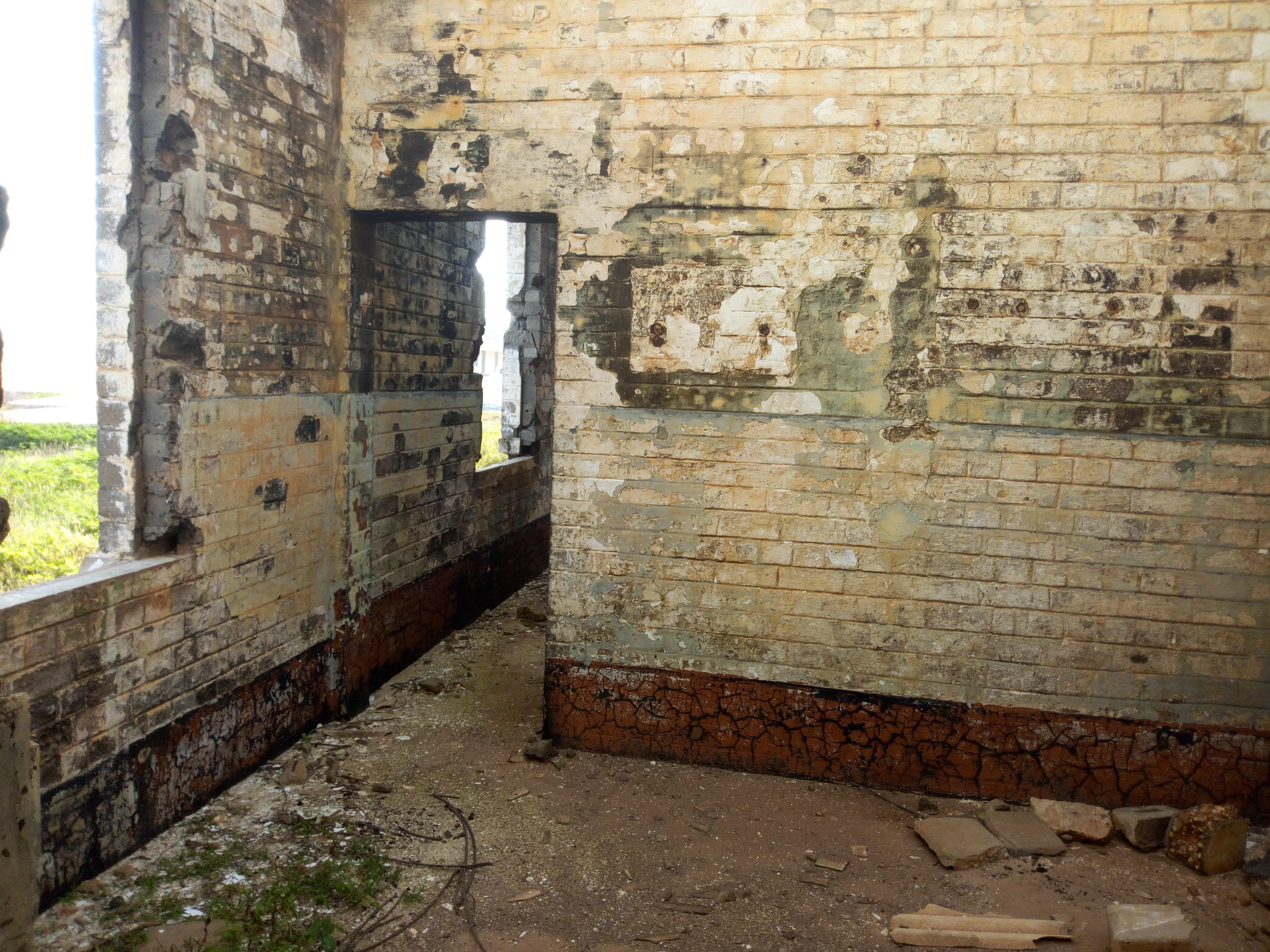 Chamber